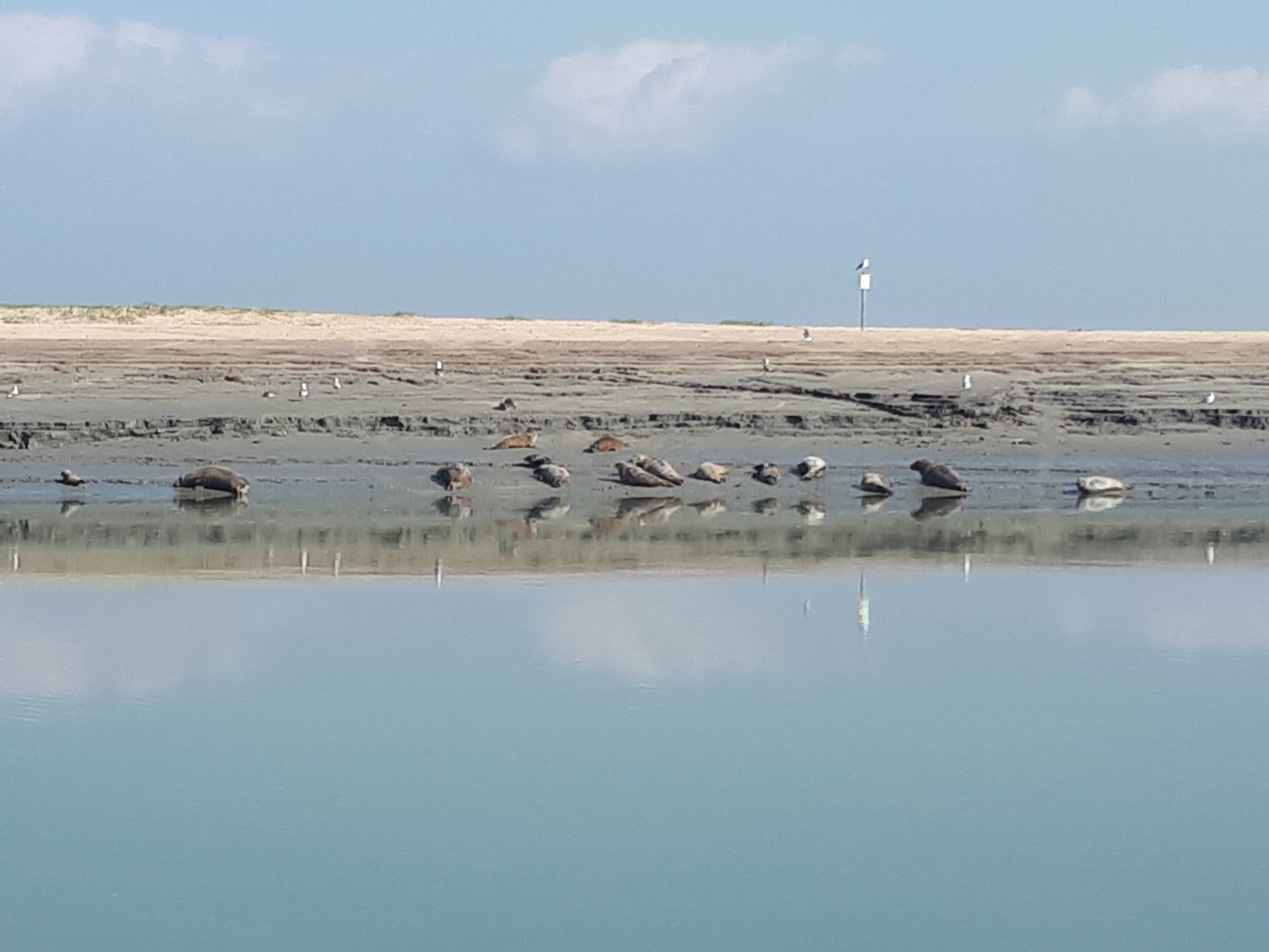 Seals on Hooge Platen